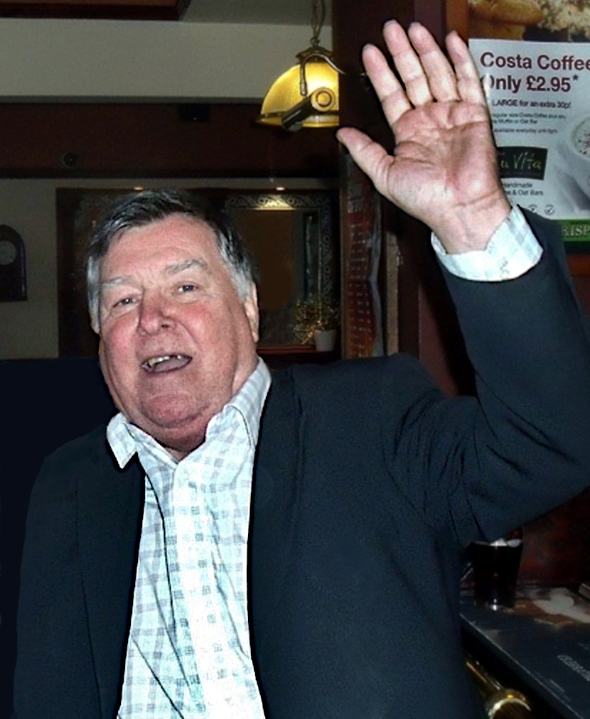 Rugby Star Barry John. Barry John (born 6 January 1945) is a former Welsh rugby union fly-half who played, during the amateur era of the sport, in the 1960s and early 1970s. John won 25 caps for the Wales national team and 5 for the British Lions. Possessing excellent balance to his running and along with precision kicking made him one of the great players of the modern era. He is considered by many to be the greatest fly-half in the sport's history, and became known as "The King".